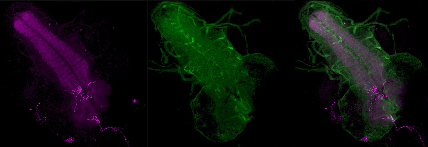 Overlay einer Immunfärbung des Genotyps repoGAL4x10xUAS-myr-GFP (grün) mit Maus-anti-Brp (magenta). Anti-Brp färbt das zentrale Neuropil im gesamten Nervensystem, nicht aber die Somata im Cortex. Die Abgrenzung zwischen Cortex aus neuronalem Somata und Neuropil ist sichtbar.